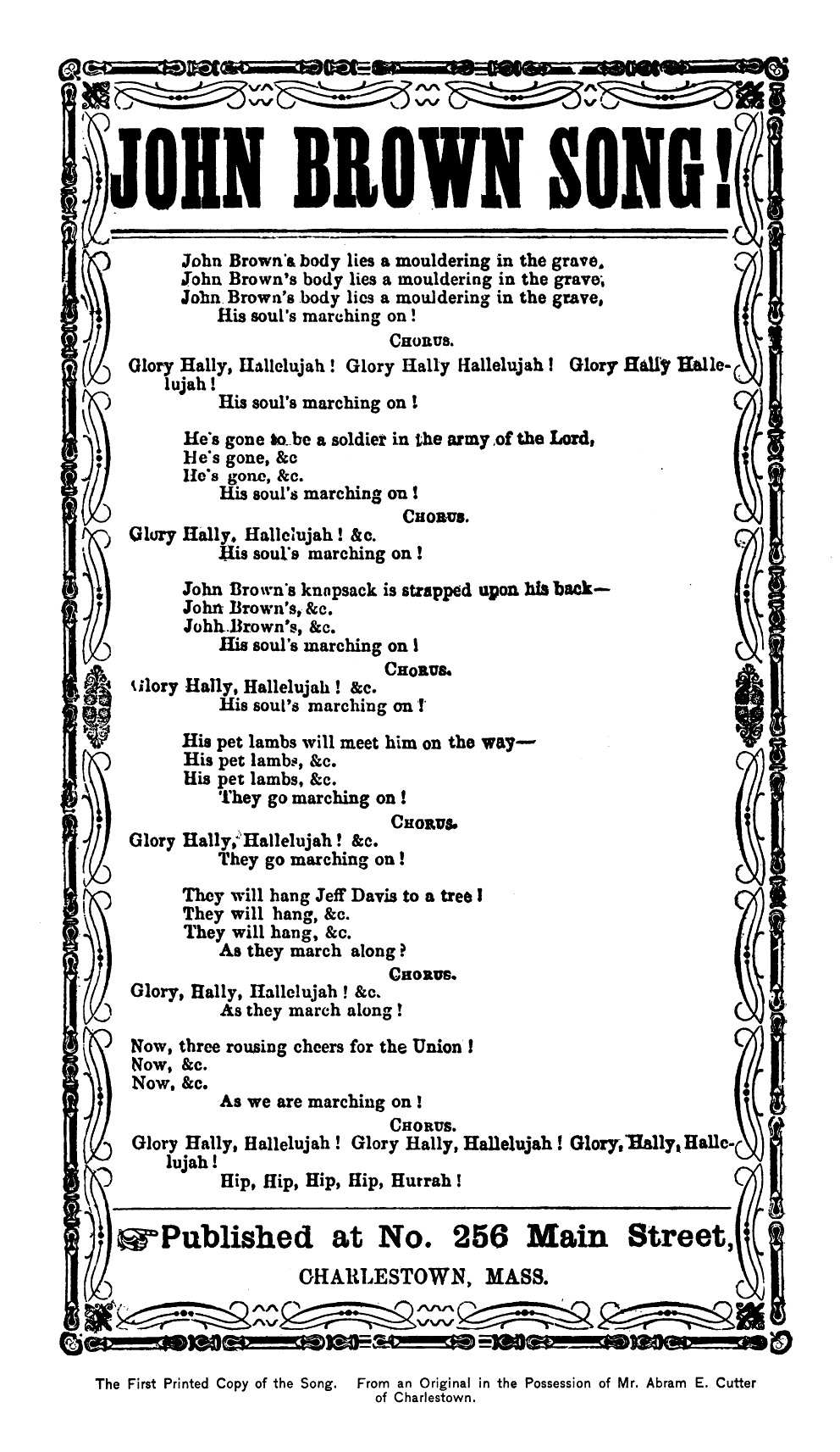 The original publication of the text of the "John Brown Song", "From an Original in the Possession of Mr. Abram E. Cutter of Charlestown", according to George Kimball and as re-published in George Kimball, "Origin of the John Brown Song", New England Magazine, new series 1 (1890):374.